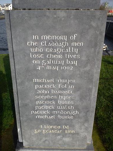 Memorial to Fishermen who drowned in Galway Bay, May 4th, 1902. Own Work. Release into public domain under the CC-Zero license. It reads "In memory of the Claddagh men who tragically lost their lives on Galway Bay, 4th May 1902, Michael Dwyer, Patrick Folan, John Barrett, Stephen Hynes, Patrick Burns, Patrick Walsh, Patrick McDonagh, Michael Burke"